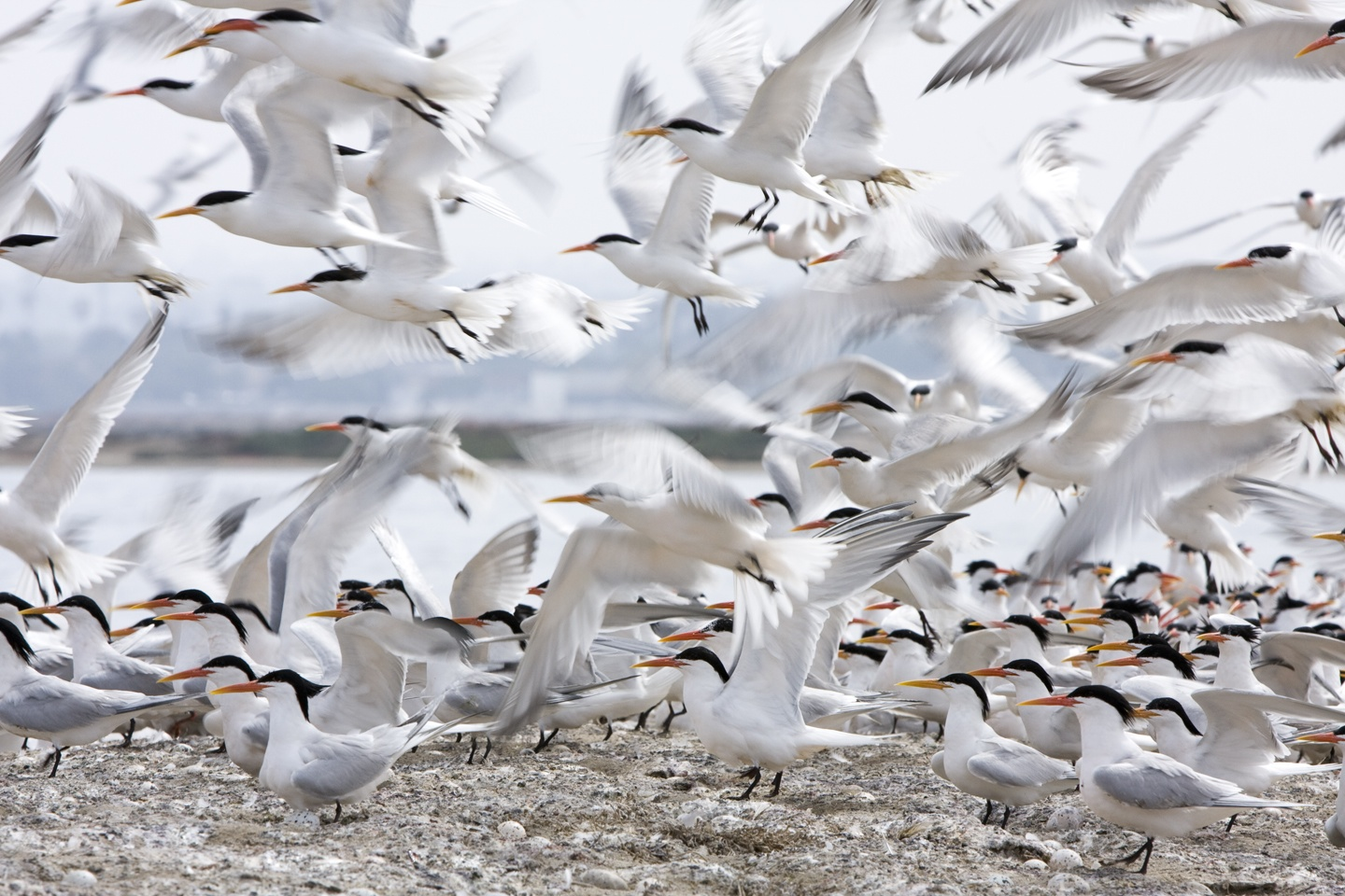 Elegant Tern flock at South Bay Salt Works, Port of San Diego, San Diego, USA.